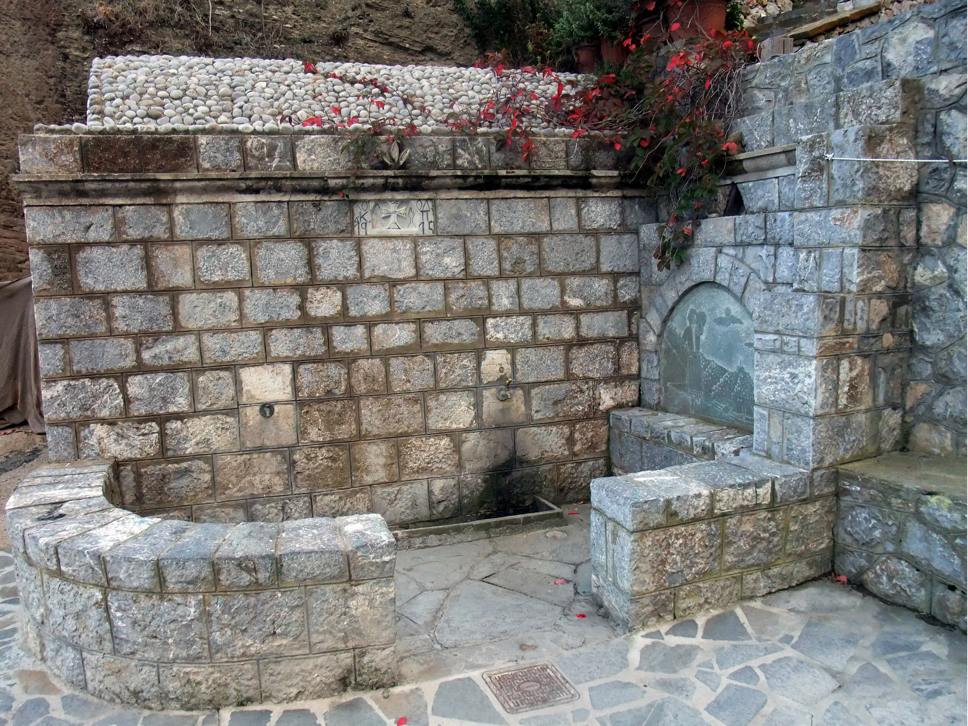 Village well in Olympos, Karpathos, Greek Dodecanese islands